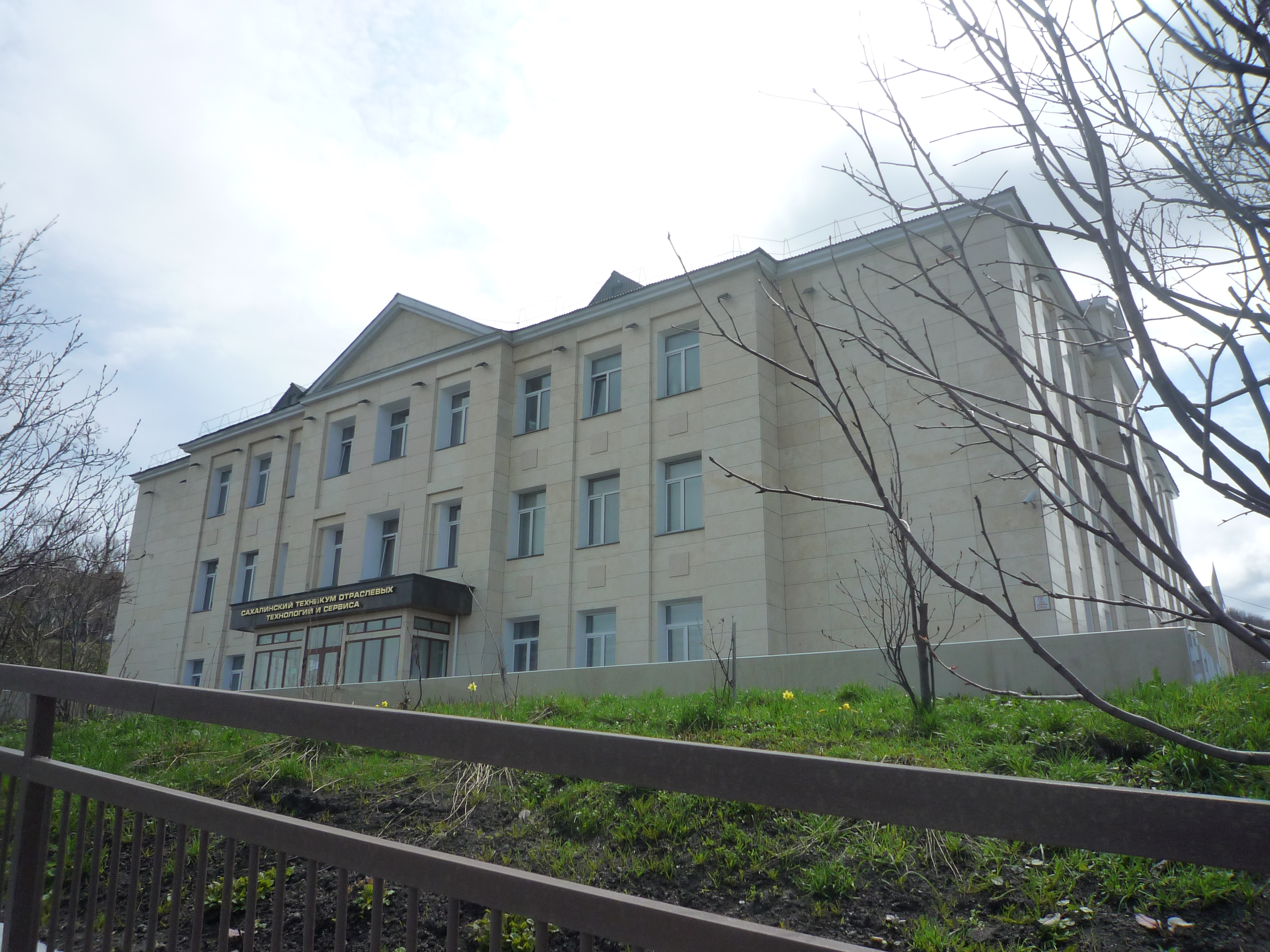 Сахалинский техникум отраслевых технологий и сервиса